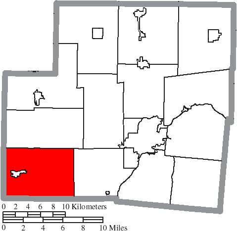 Map of the municipal and township boundaries of Shelby County, Ohio, United States, as of the 2000 census, with the location of Loramie Township highlighted. Township borders are shown only in unincorporated areas in order to differentiate incorporated and unincorporated areas more clearly.